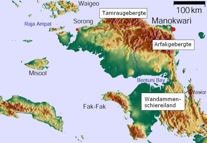 Vogelkop Peninsula, West Papua (Indonesia) indicated in Dutch Arfak- and Tamraumountains